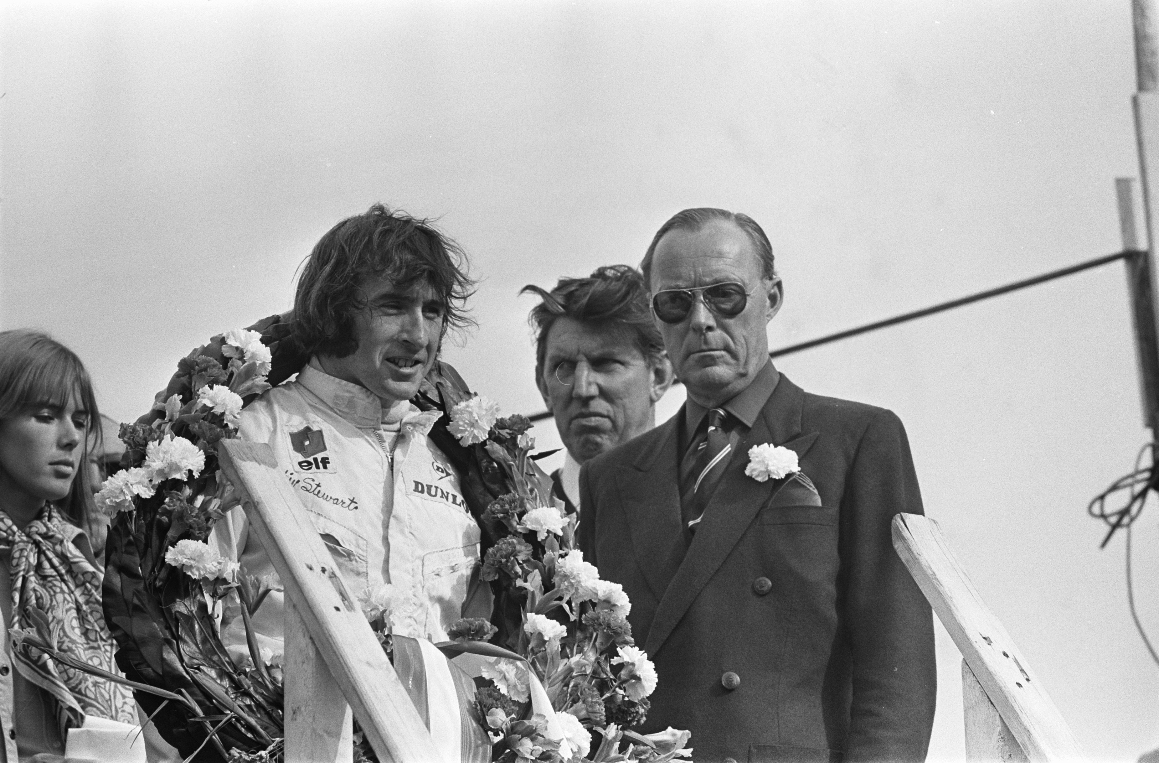 Jackie Stewart celebrating his win in the 1969 Dutch Grand Prix along with Prince Bernhard